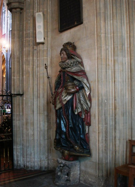 St Mary Redcliffe, Bristol. Queen Elizabeth I This contemporary statue of Queen Elizabeth the first is a reminder that she Queen Elizabeth I described St Mary Redcliffe as "the fairest, goodliest and most famous parish church in England".